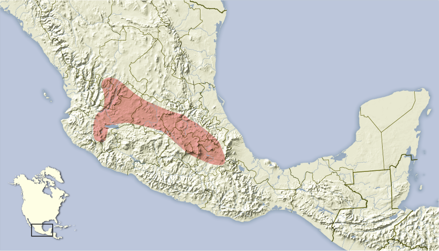 Distribution map of the Mexican ground squirrel